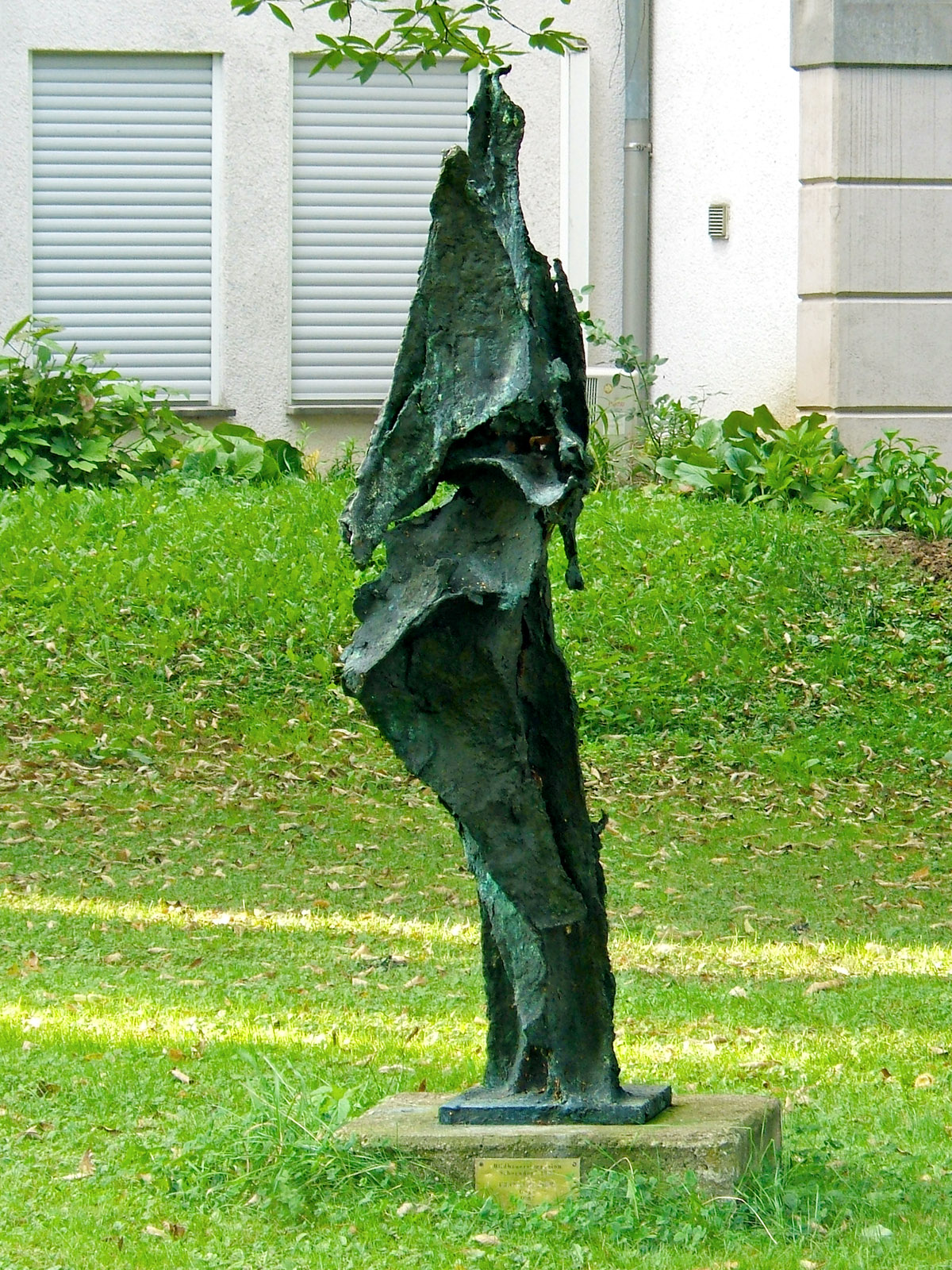 sculpture in Schorndorf, Germany